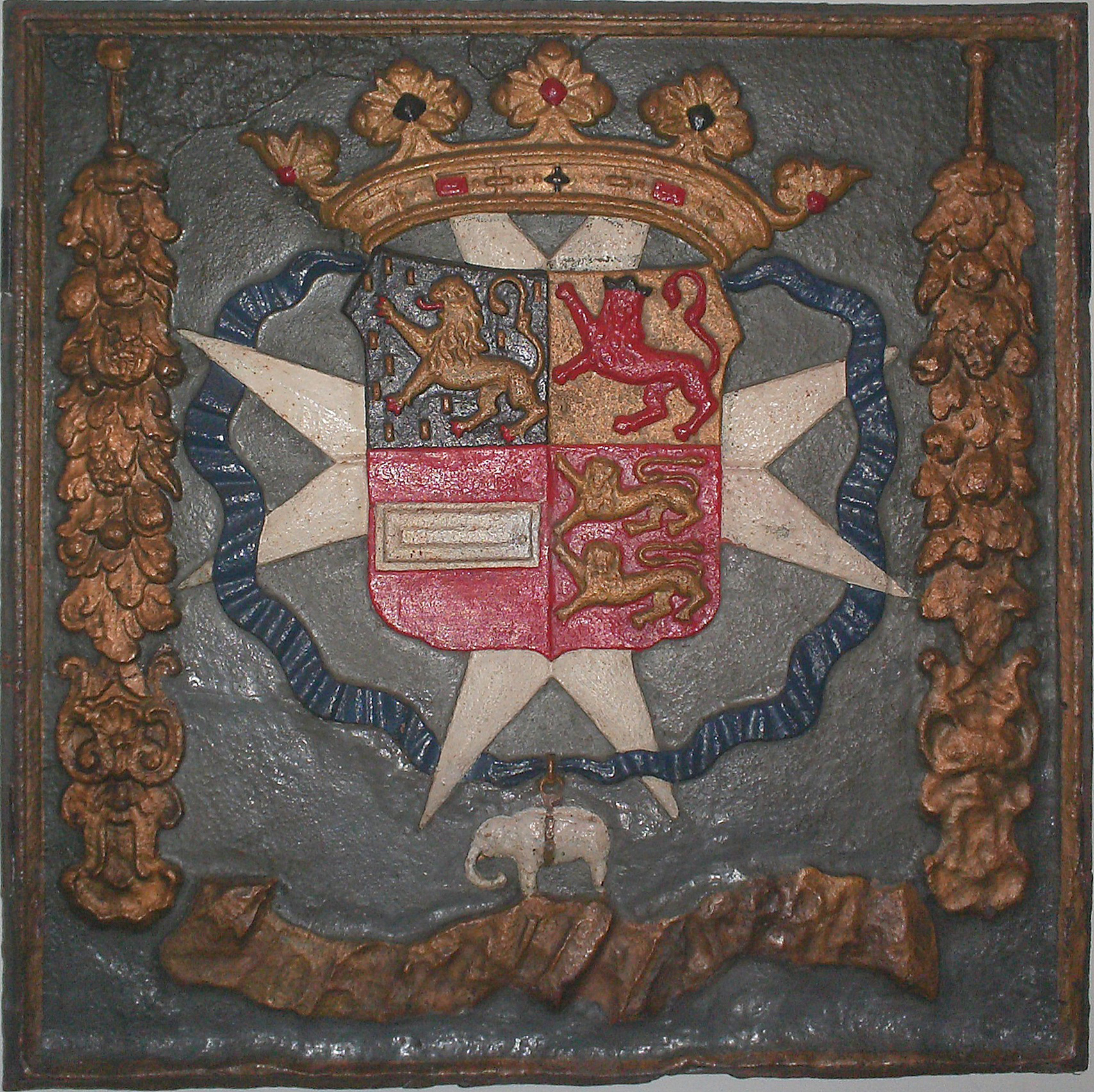 Maurice of Nassau arms in iron cast